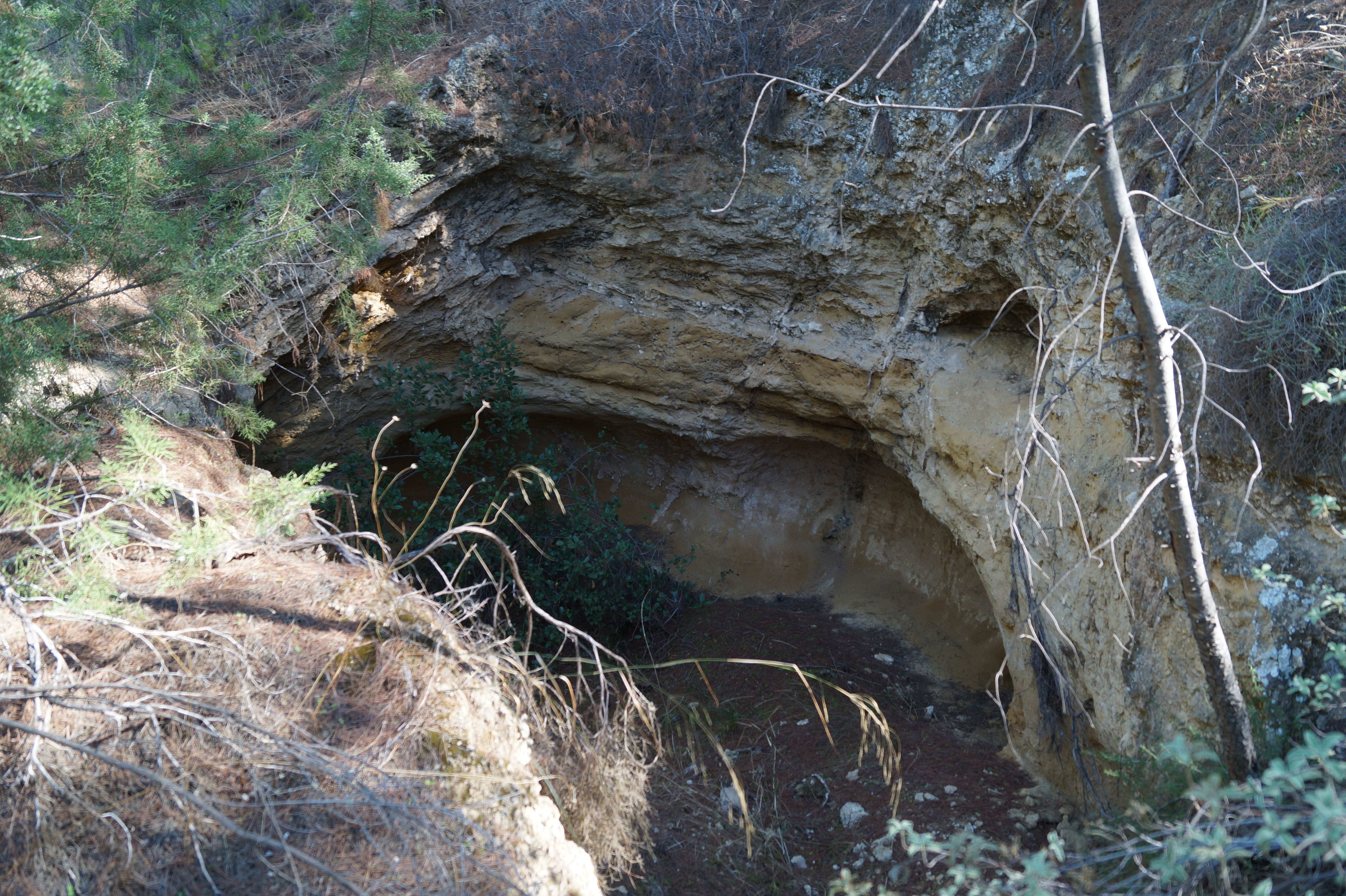 Kato Almyri, Corinthia, Greece: View from north on the collapsed chamber of tomb XIII of the mycenaean cemetery of Kato Almyri.